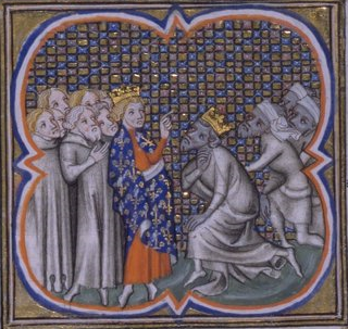 Philip III and the sultan of Tunis